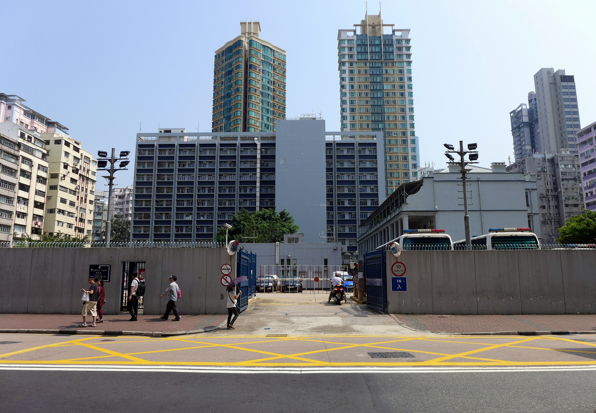 Mong Kok Divisional Police Station